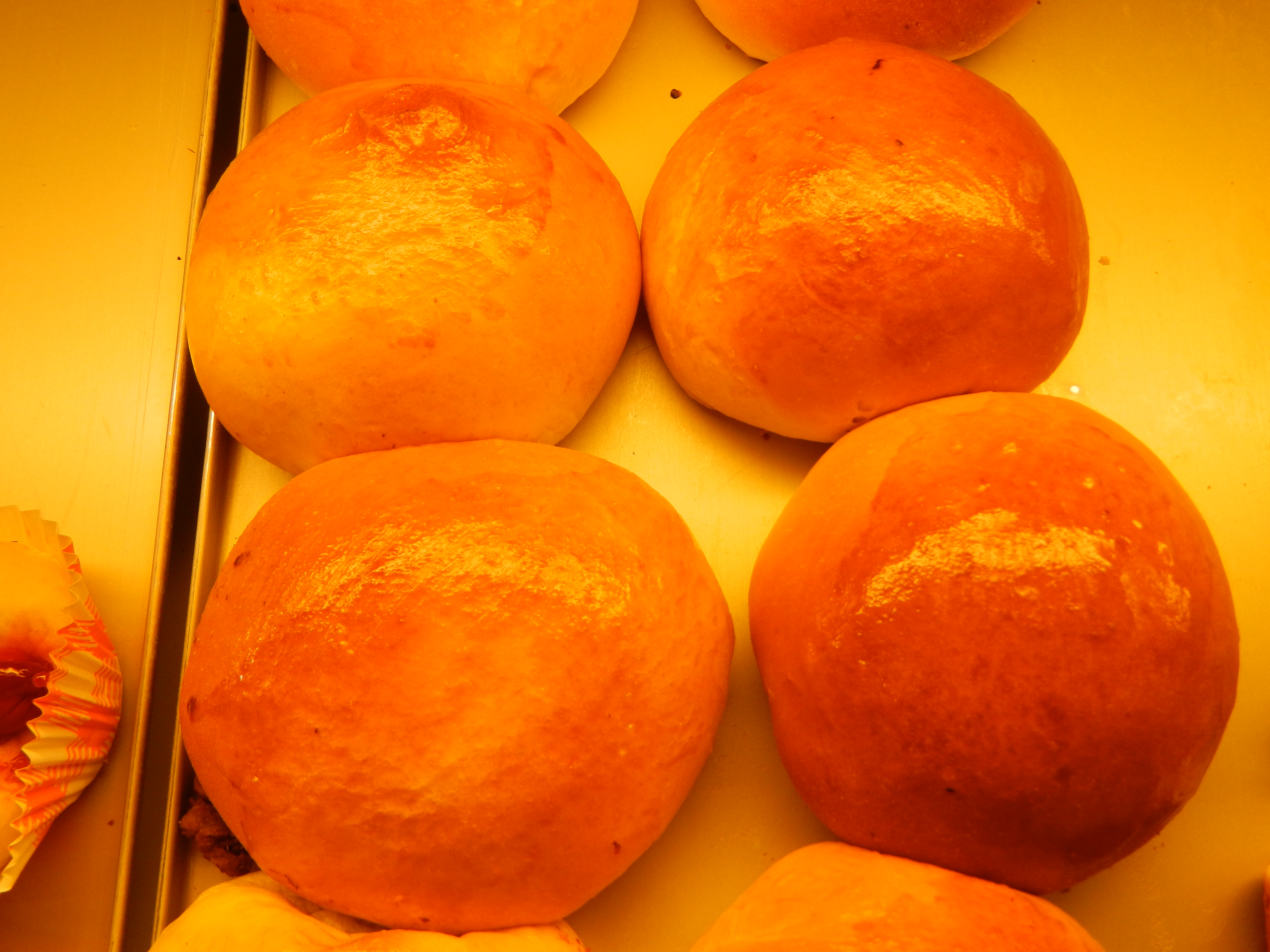 [1]Asado roll, French Baker